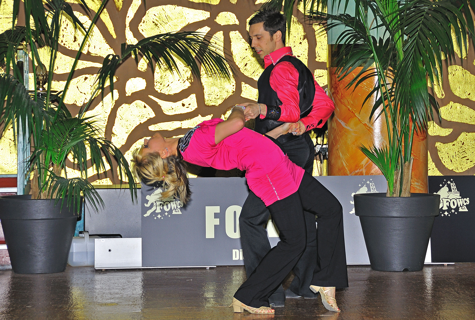 Nicolas BOURGEAIS & Delphine COTTET (FRANCE) in a Classic West Coast Swing competition at the French Open of West Coast Swing